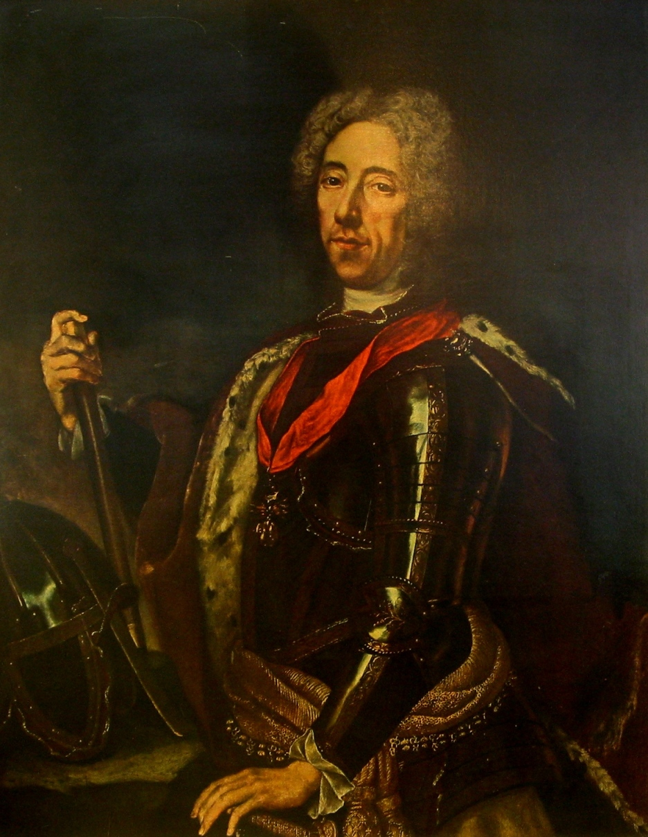 Portrait of Prince Eugene of Savoy (1663-1736)